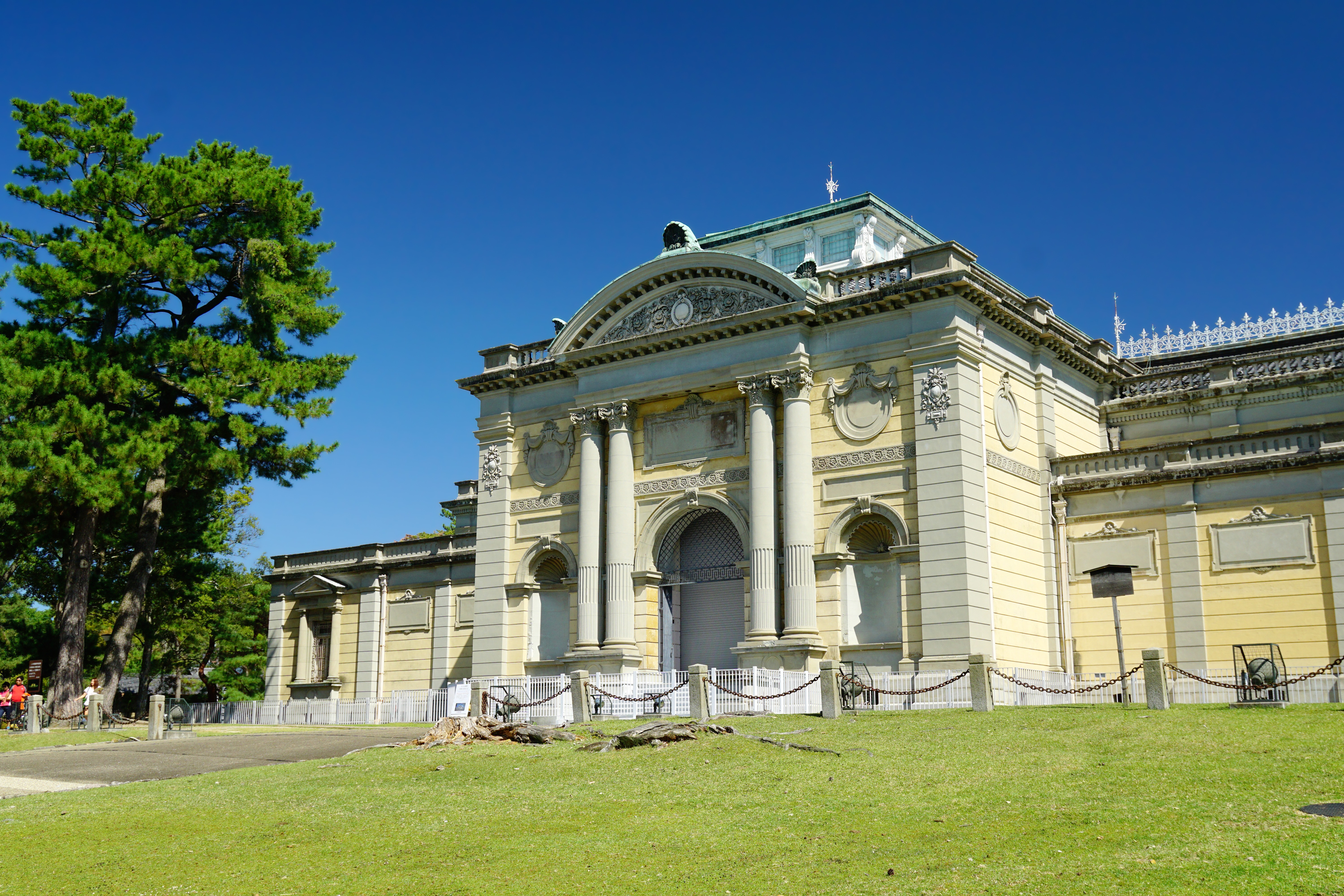 Nara National Museum in Nara, Nara prefecture, Japan.